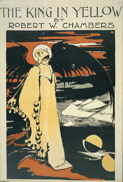 Cover of Robert W. Chambers The King in Yellow with illustration by the author.